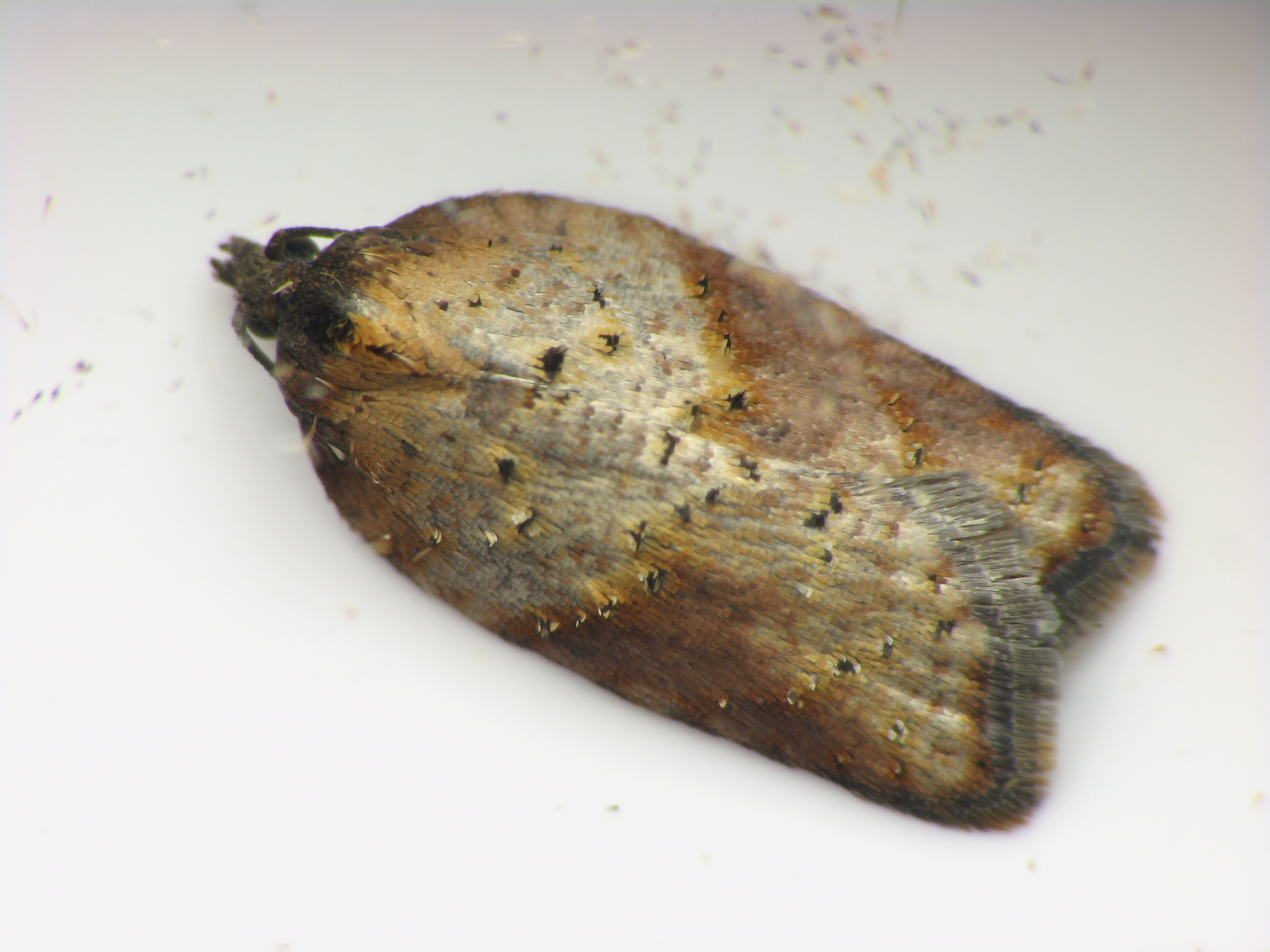 Tortricid moth Acleris schalleriana (Schaller's Acleris Moth - Hodges#3527) raised on arrowwood. Size: 8 mm. Pennypack Restoration Trust, Montgomery County, Pennsylvania, USA.